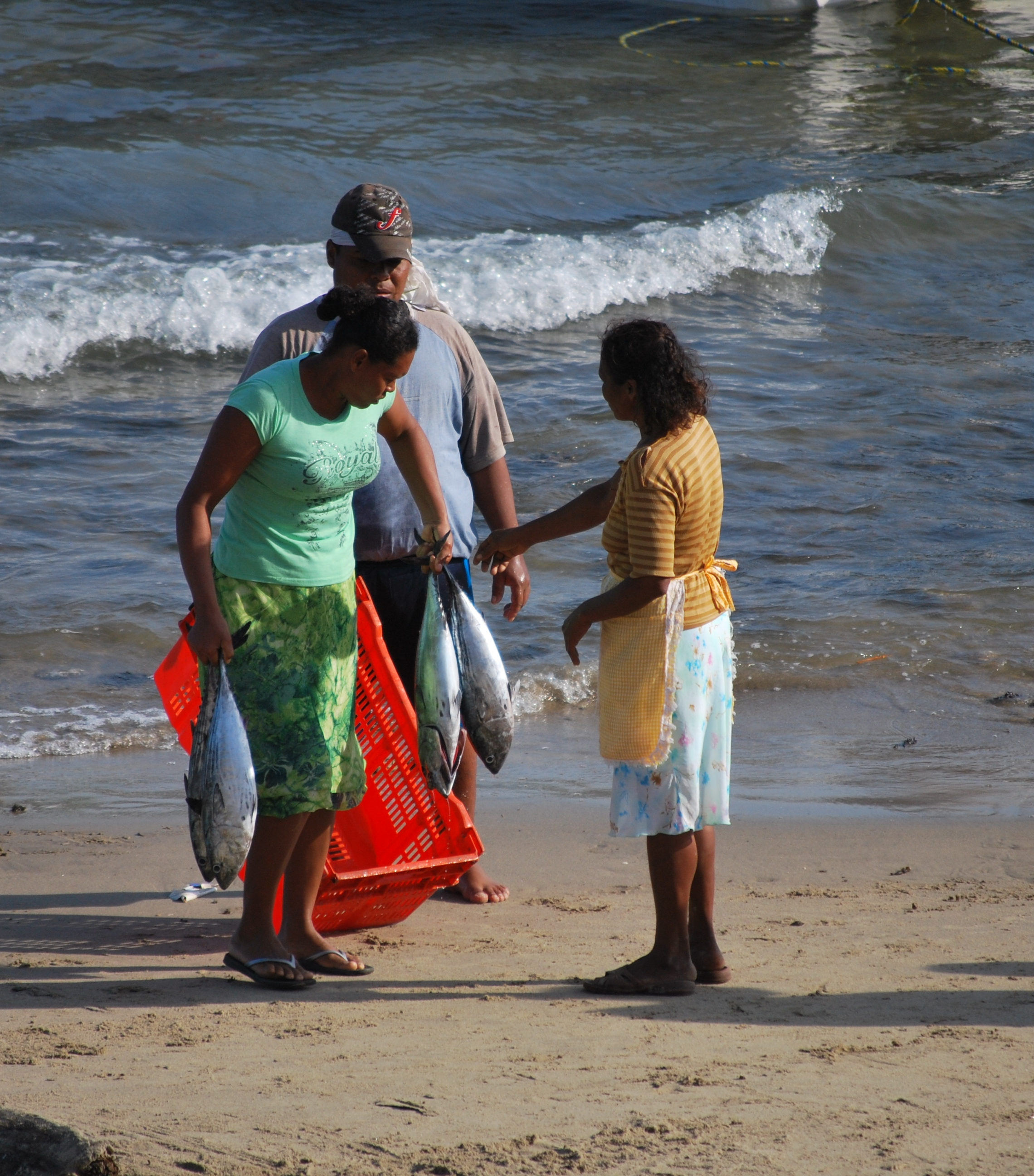 Residents with fish on the beach at Punta Maldonado, Cuajinicuilapa, Guerrero